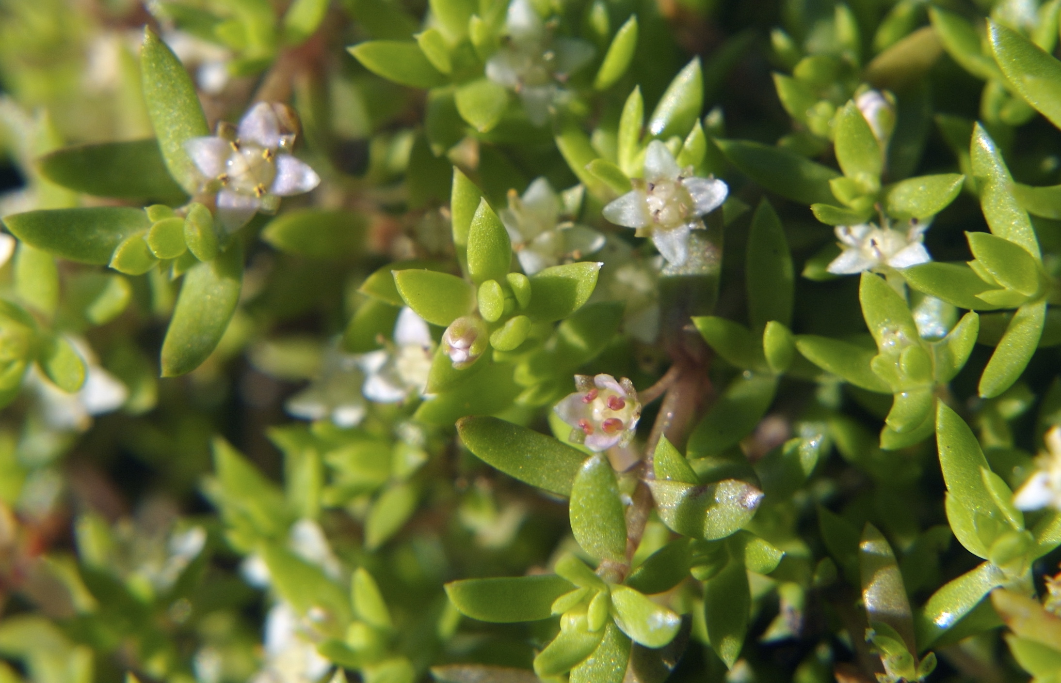 Crassula helmsii - Invasive species - the 7 august 2011 in Pilley, England, United Kingdom